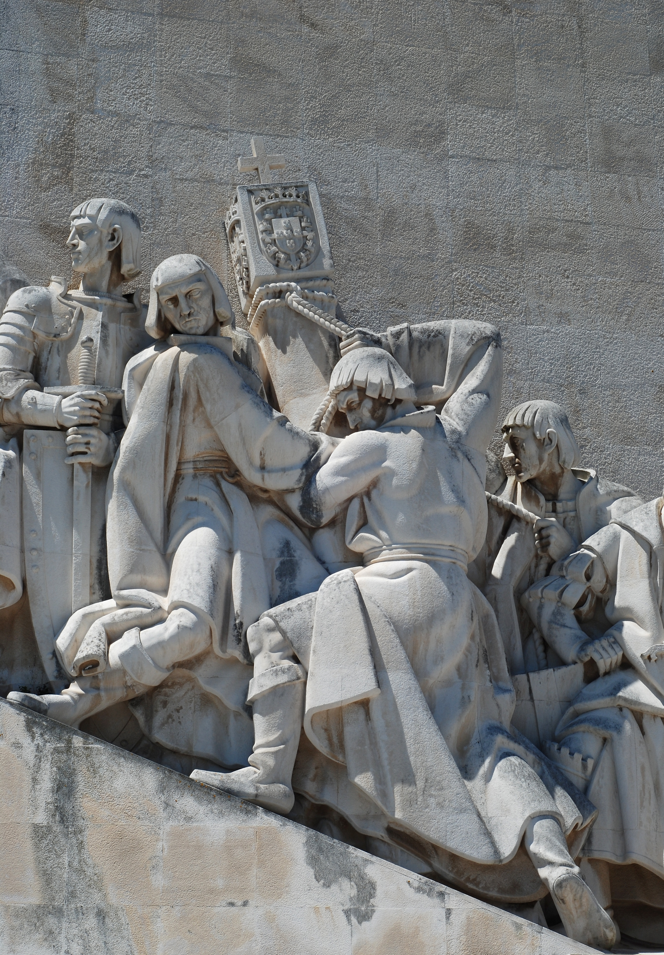 Monument to the Portuguese discoveries (Padrão dos Descobrimentos), Lisbon. Detail showing the navigators Estevão da Gama, Bartolomeu Dias, Diogo Cão and António Abreu raising a padrão (from left to right)